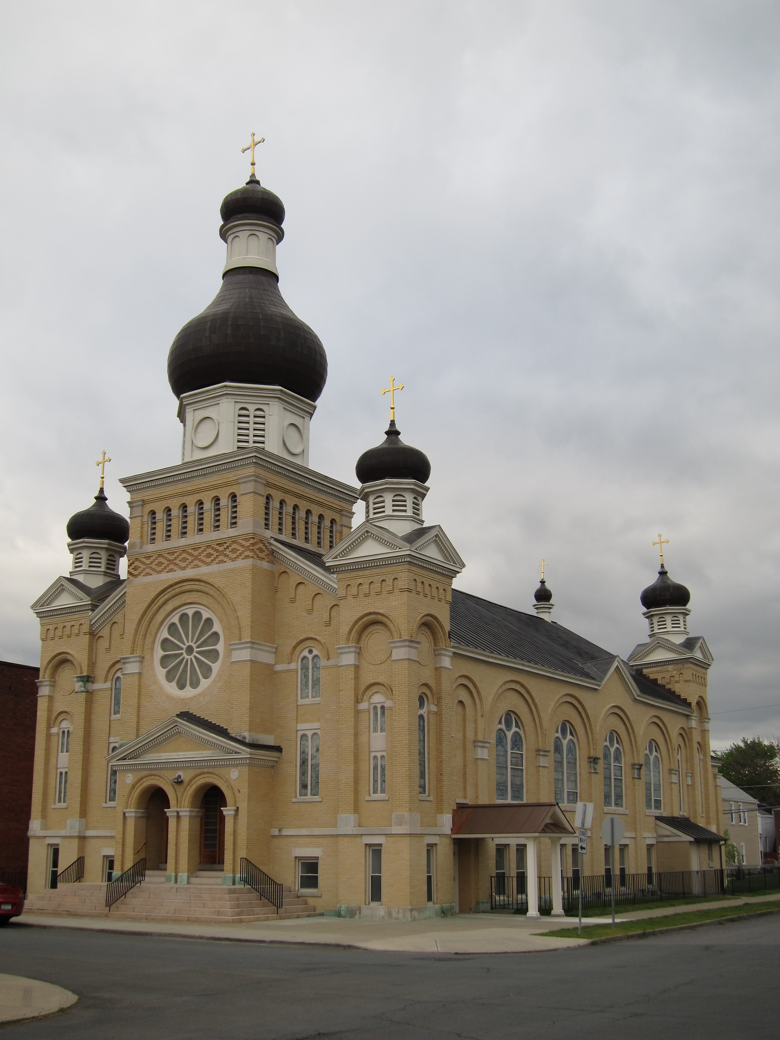 Saint Nicholas Ukrainian Catholic Church (Watervliet, New York) - front looking northeast